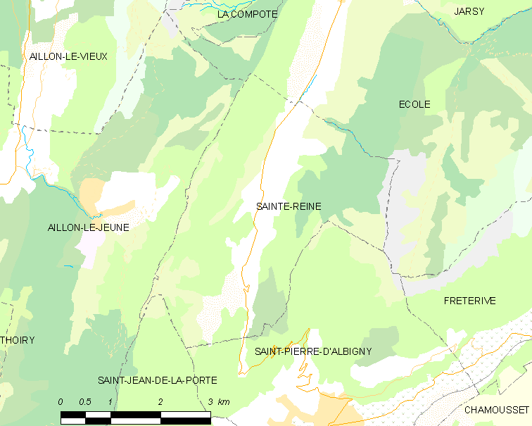 Map of French municipality Sainte-Reine